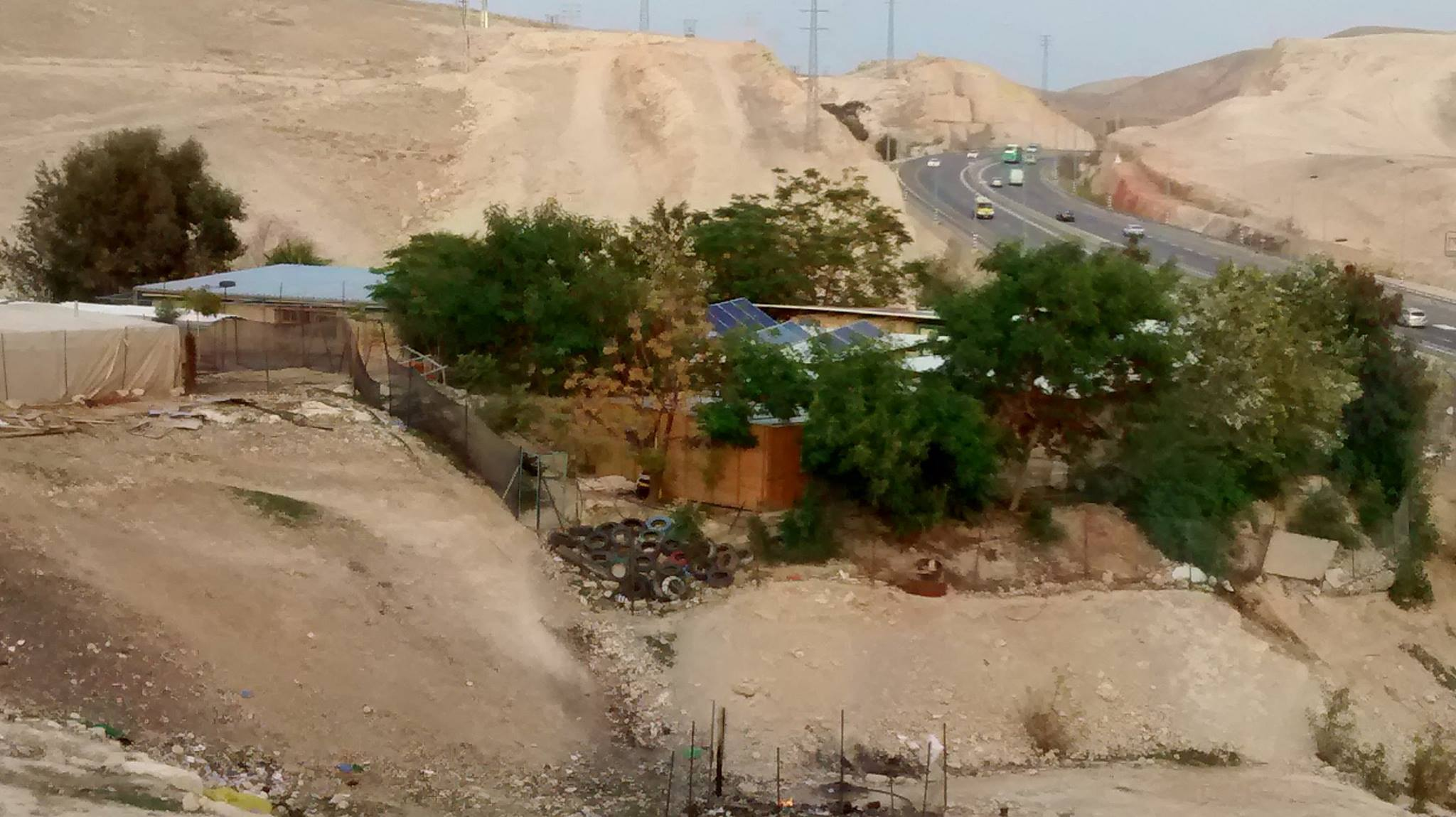 The internationally-funded and eco-friendly school building for the Khan al-Ahmar community in the West Bank, with Israeli Highway 1 in the background.